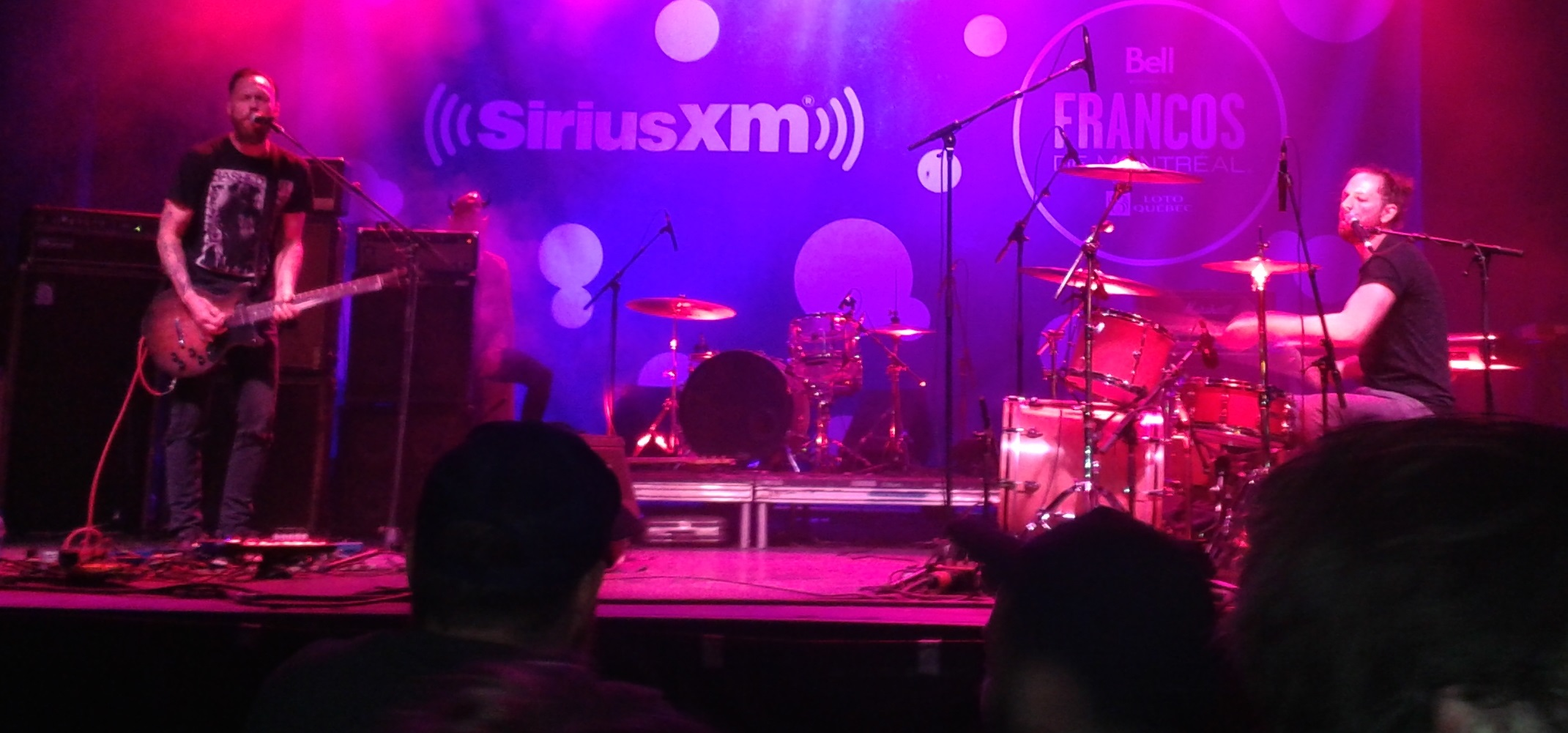 Oktoplut photographed in Montréal , Québec, Canada at the Francos de Montréal 2018.